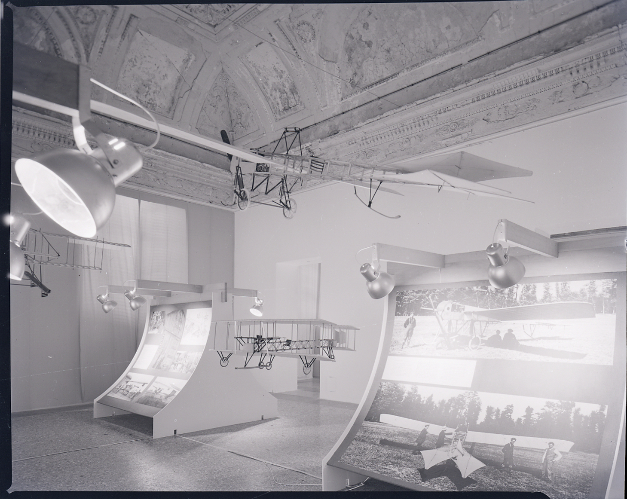 Royal Palace of Milan. Exhibition of aviation pioneers. Installment by Marco Zanuso. Panels with photographs and texts, models of airplanes.